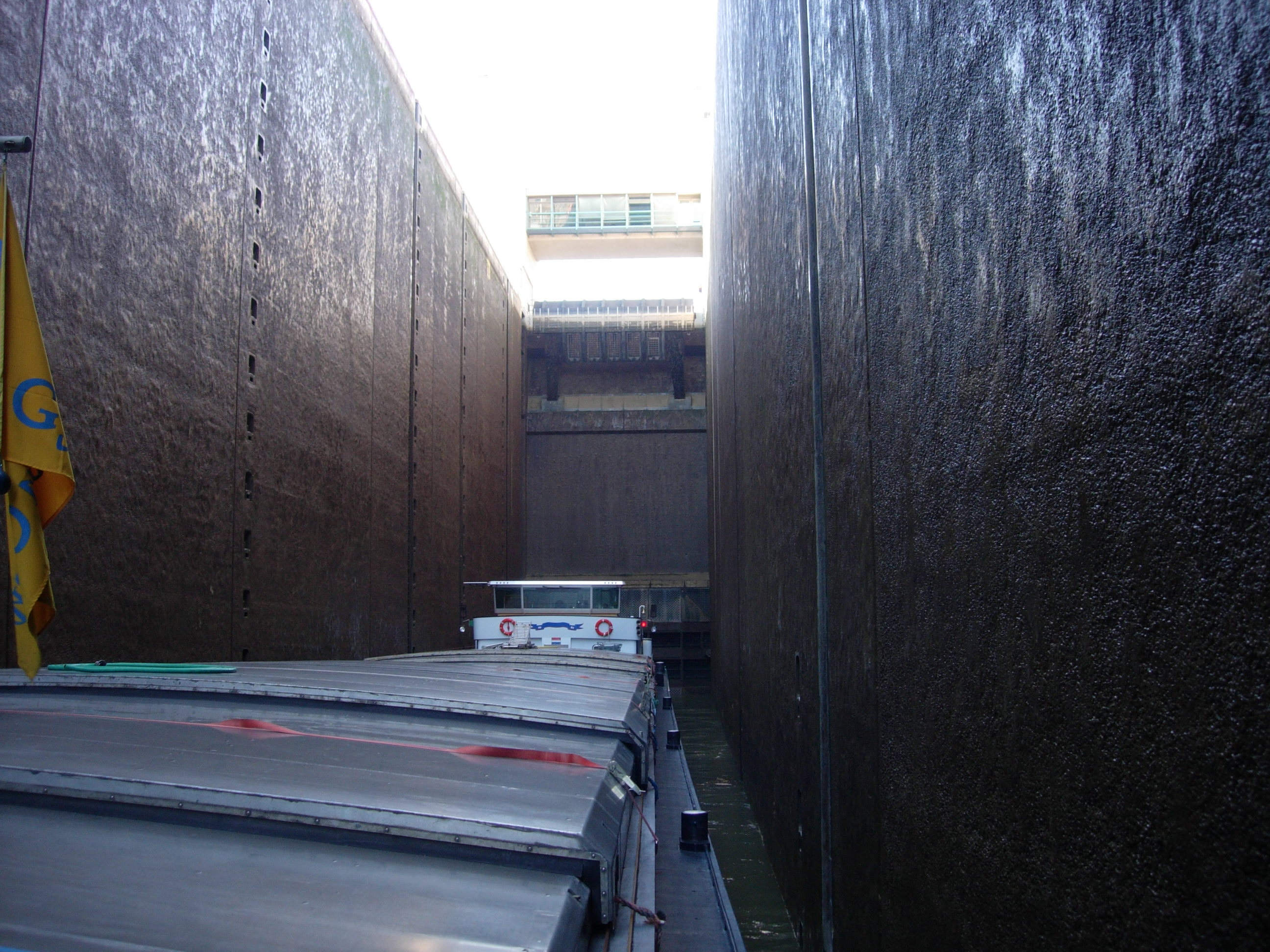 In the lock Leerstetten